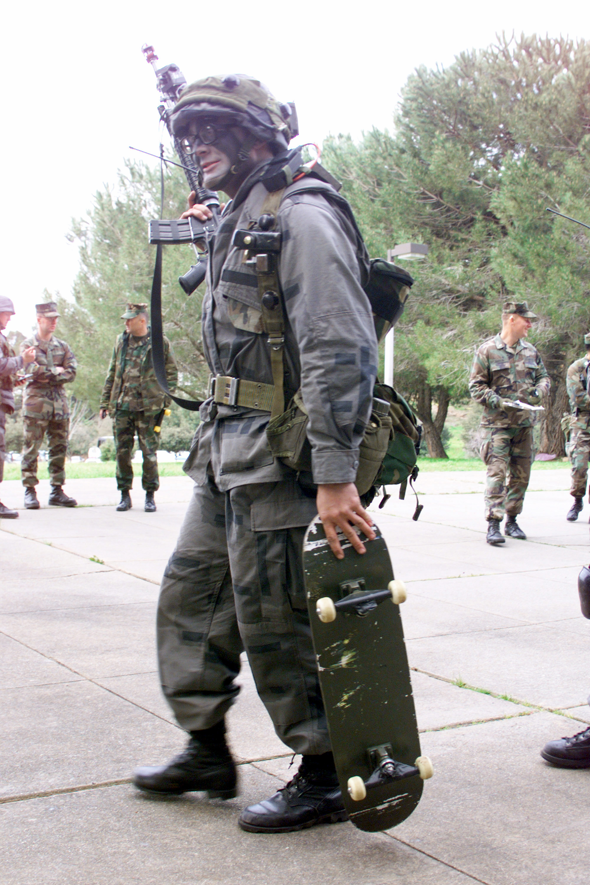 Photo of a U.S. Marine carrying a skateboard during military exercise "Urban Warrior '99", in March 1999. LCPL Chad Codwell, from Baltimore, Maryland, with Charlie Company 1st Battalion 5th Marines, carries an experimental urban combat skateboard which is being used for manuevering inside buildings in order to detect tripwires and sniper fire. This mission is in direct support of Urban Warrior '99. Location: OAKLAND, CALIFORNIA (CA) UNITED STATES OF AMERICA (USA) Camera Operator: LCPL CHRISTOPHER L. VALLEE Date Shot: 16 Mar 1999